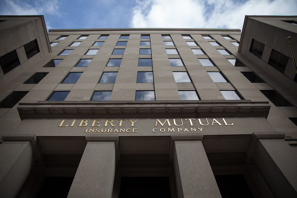 The Liberty Mutual Insurance world headquarters building, located in Boston, MA.